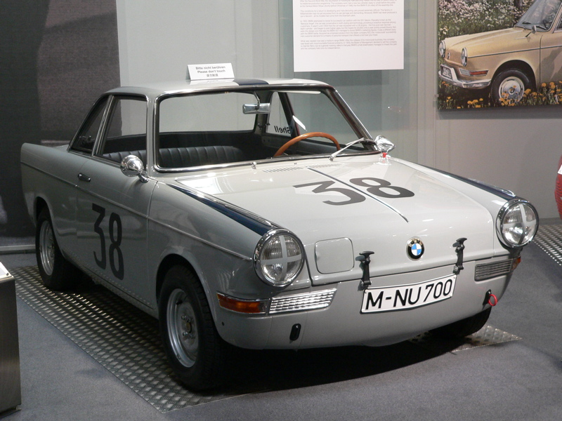 BMW 700 Sport, taken in the temporary BMW Museum, March 2005